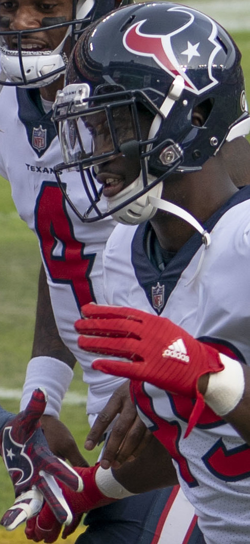 The Houston Texans celebrate at FedExField in 2018